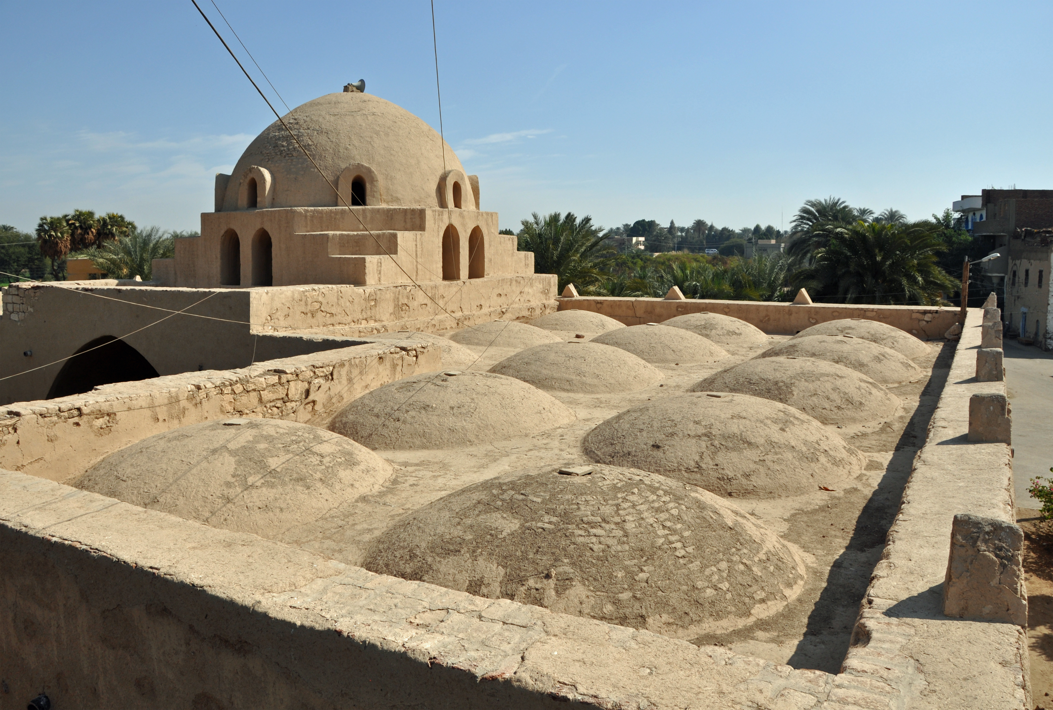 Gurna (Luxor, Egypt): the mosque (architect: Hassan Fathy)